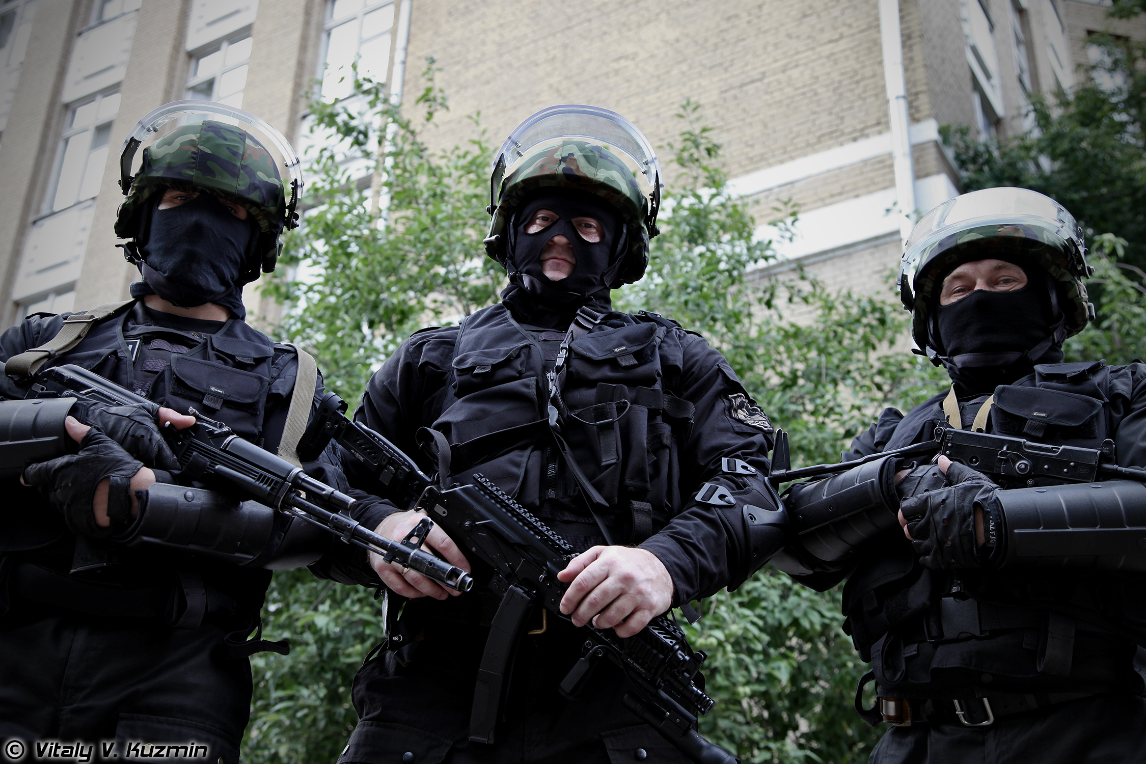 Special purpose unit Saturn of Moscow department of Federal Service for Punishment Execution